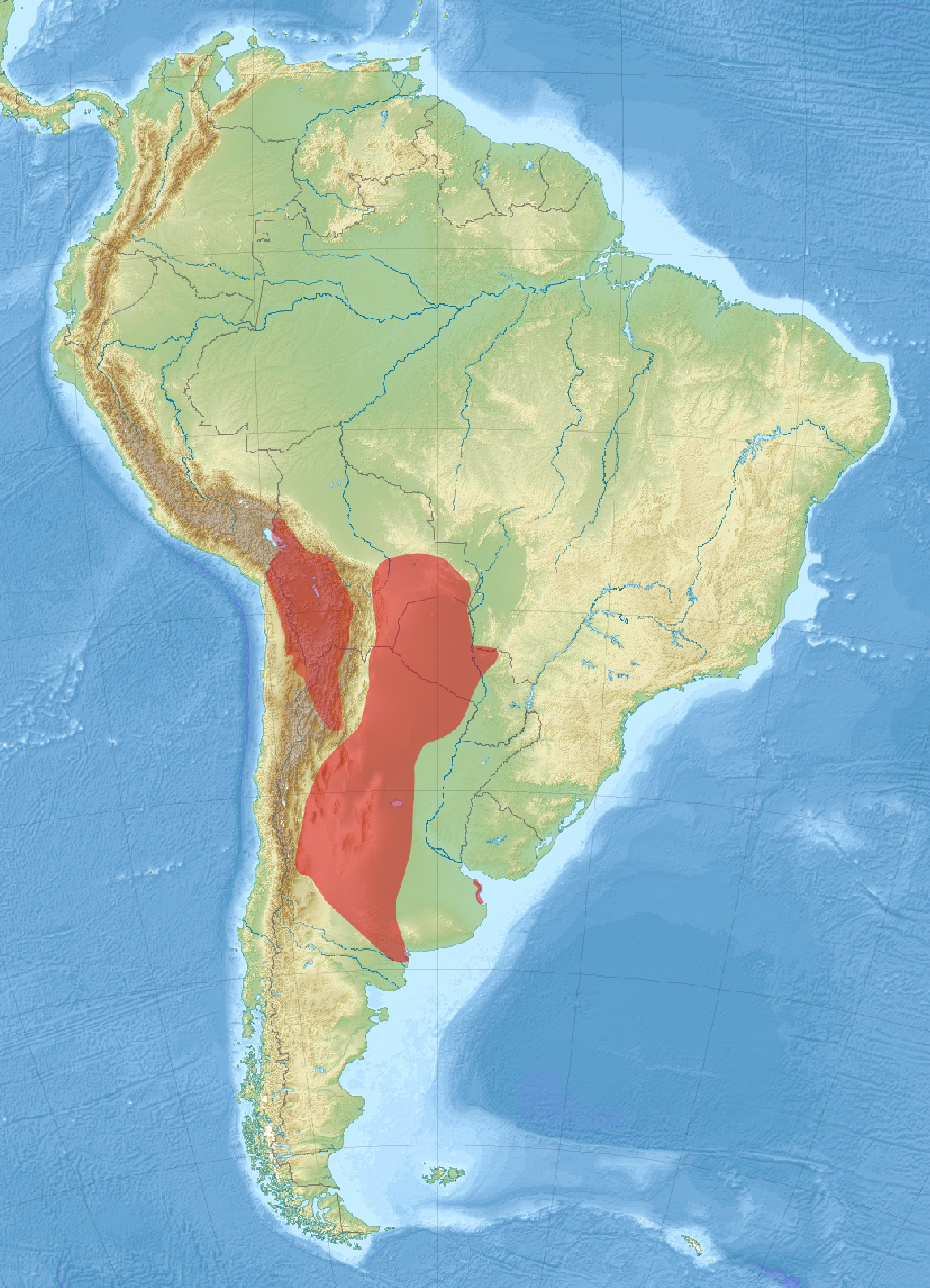 Distribution map of the Screaming hairy armadillo